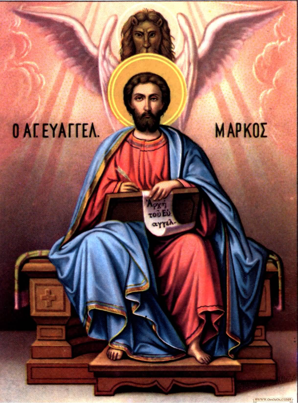 Apostle Mark